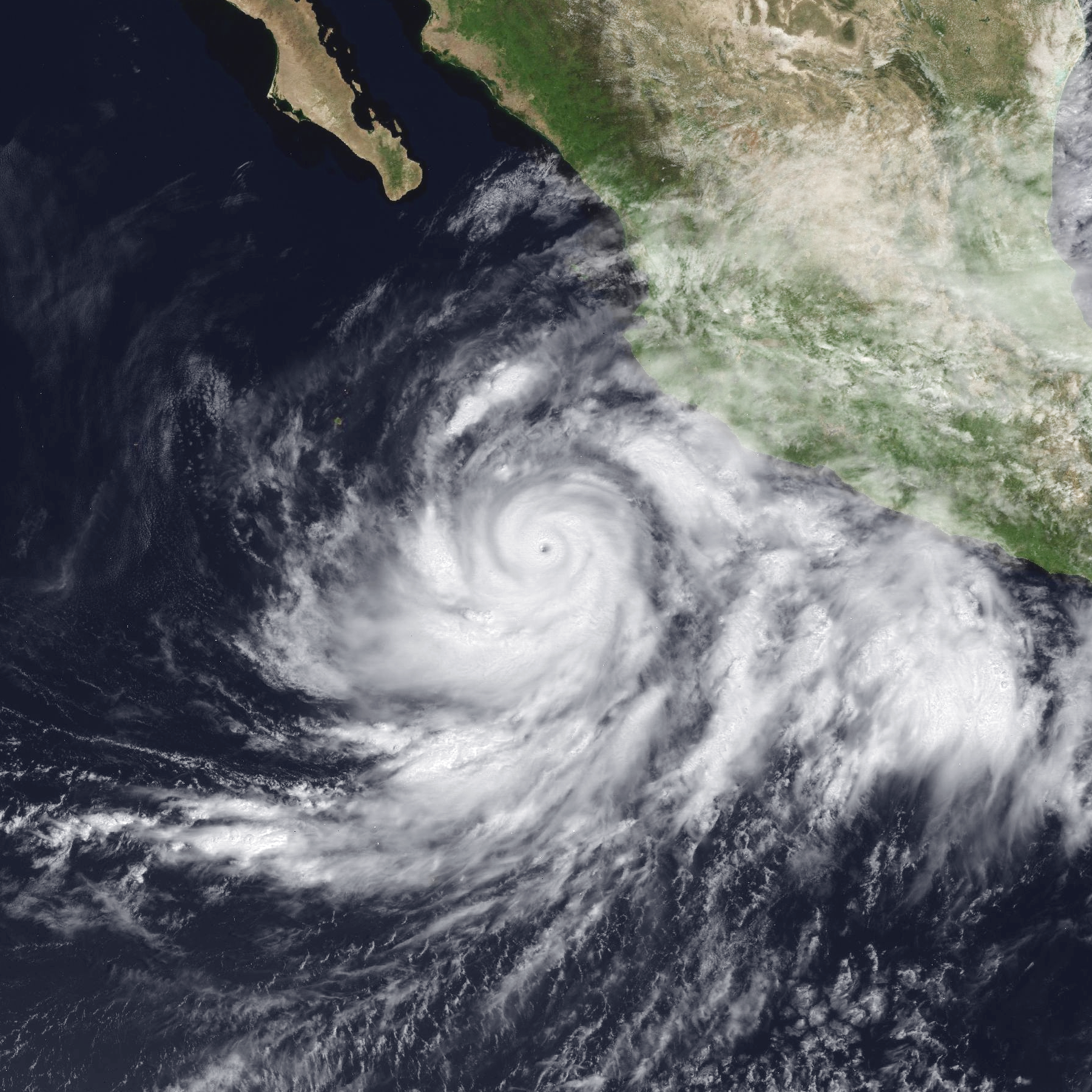 Hurricane Juliette at peak intensity off the southwest coast of Mexico on September 25, 2001